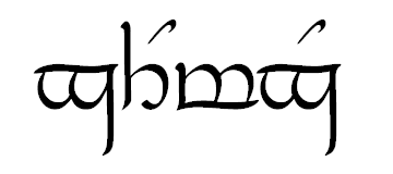 The Name "Gothmog" written in J. R. R. Tolkien's tengwar script, "general-use" orthography (tehtar mode, chiefly used by men)